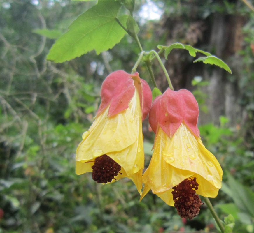 Abutilon megapotamicum